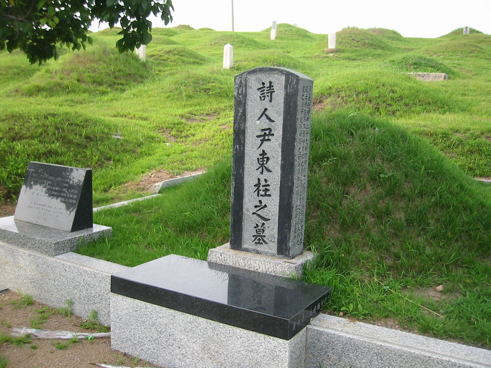 the tomb of Yoon Dong ju